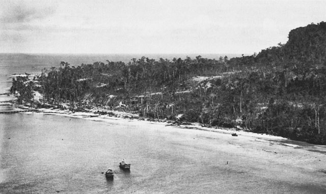 East Caves area, Biak. Free/public dominion image of Hyperwar, a free US-military website